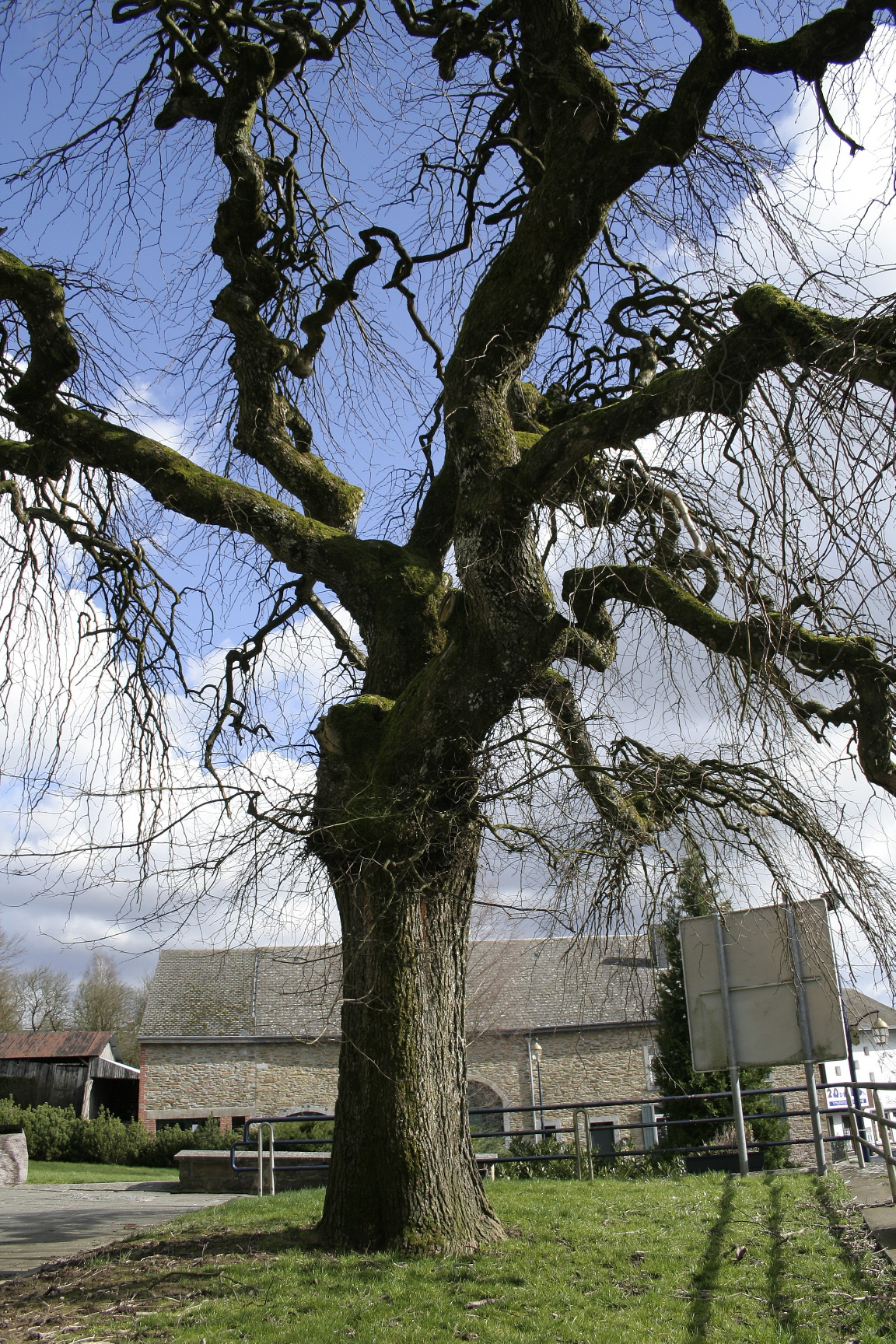 Glabra elm - Ulmus glabra (Ulmus glabra camperdownii).